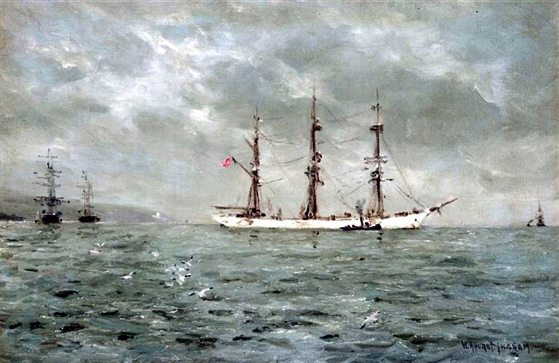 At Anchor